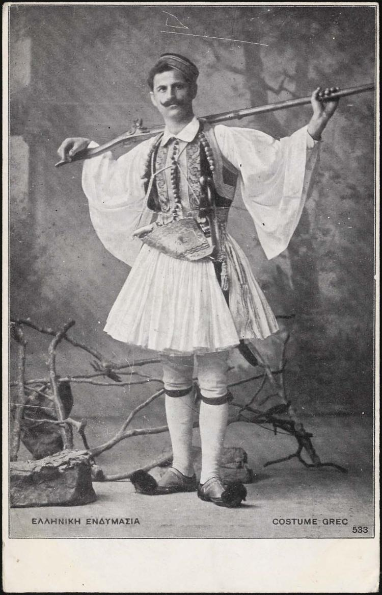 Costume Grec. Ελληνική φουστανέλλα